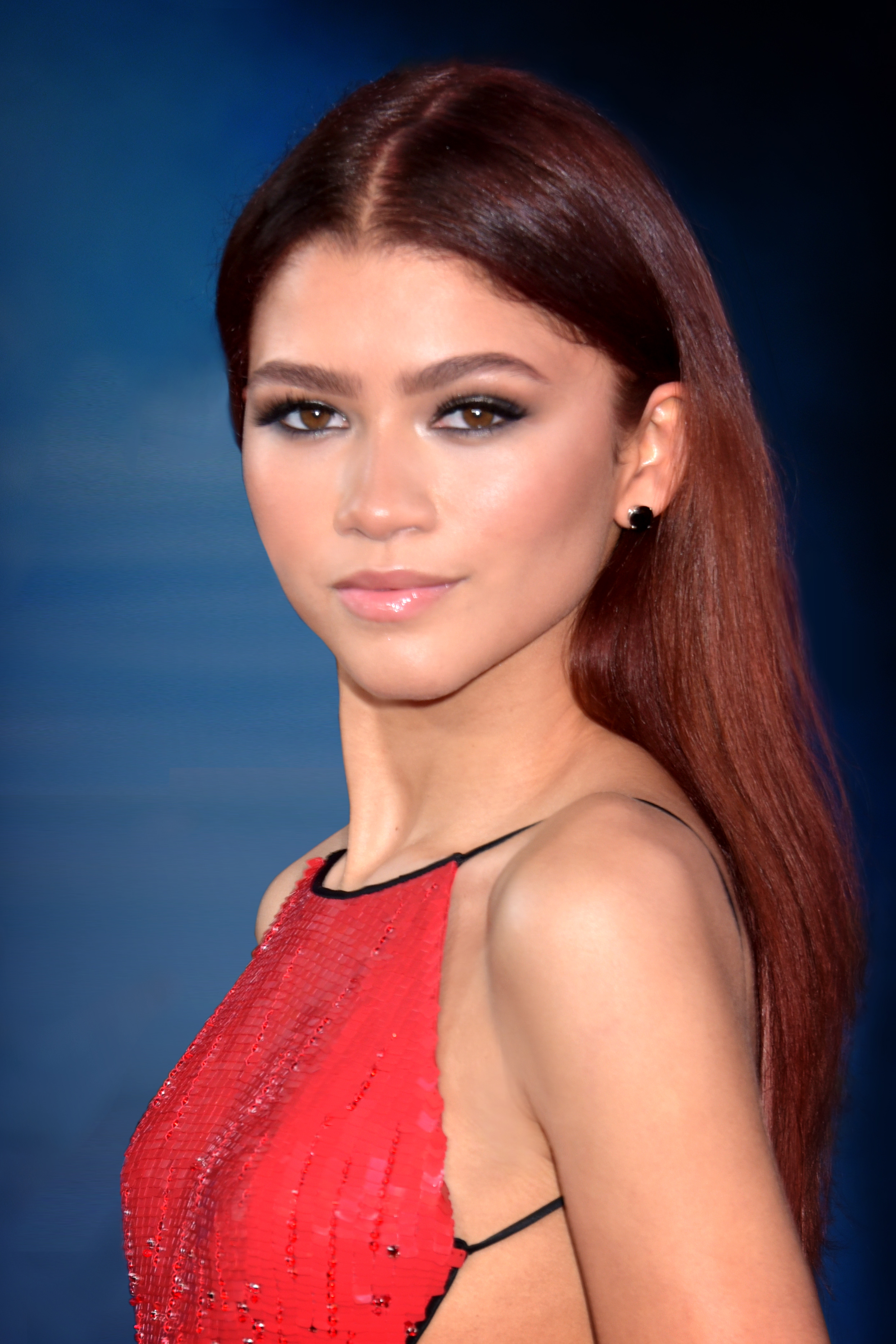 Zendaya arrives for the premiere of "Spider-Man: Far From Home" in Hollywood California on June 26, 2019 - Photo by Glenn Francis of